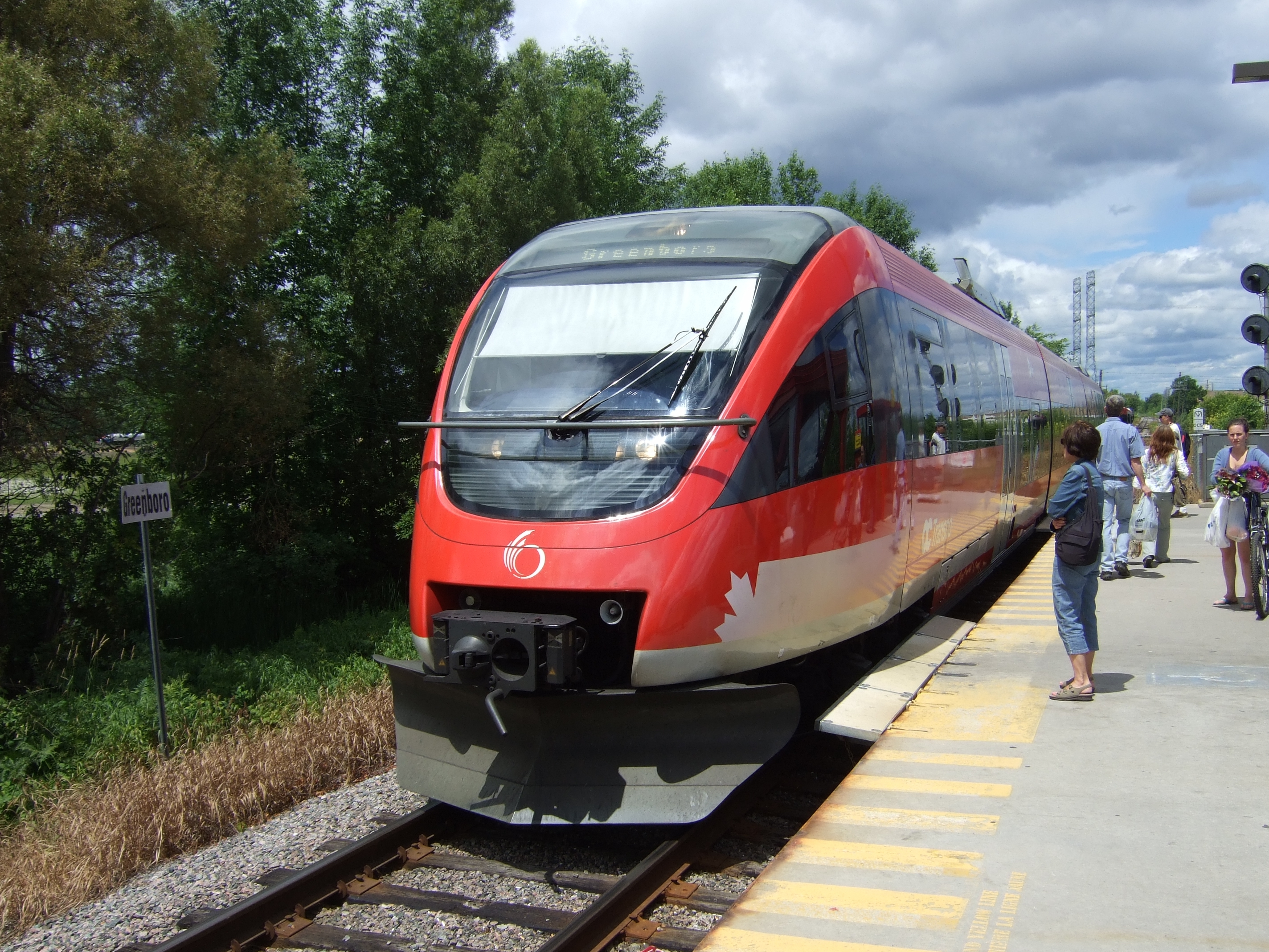 O-Train at Greenboro Station, Ottawa, Ontario